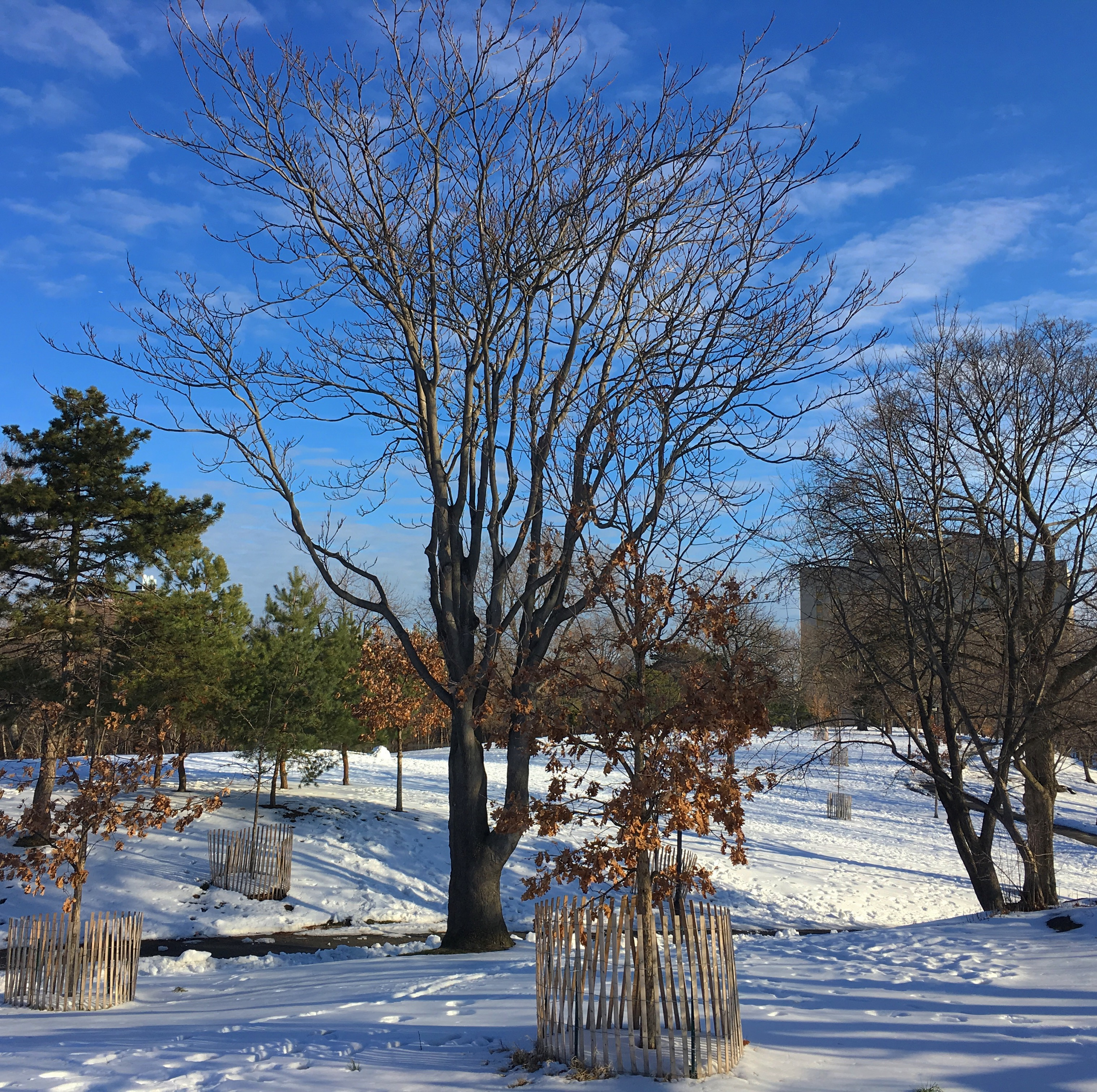 Winter in Franz Sigel Park, Bronx